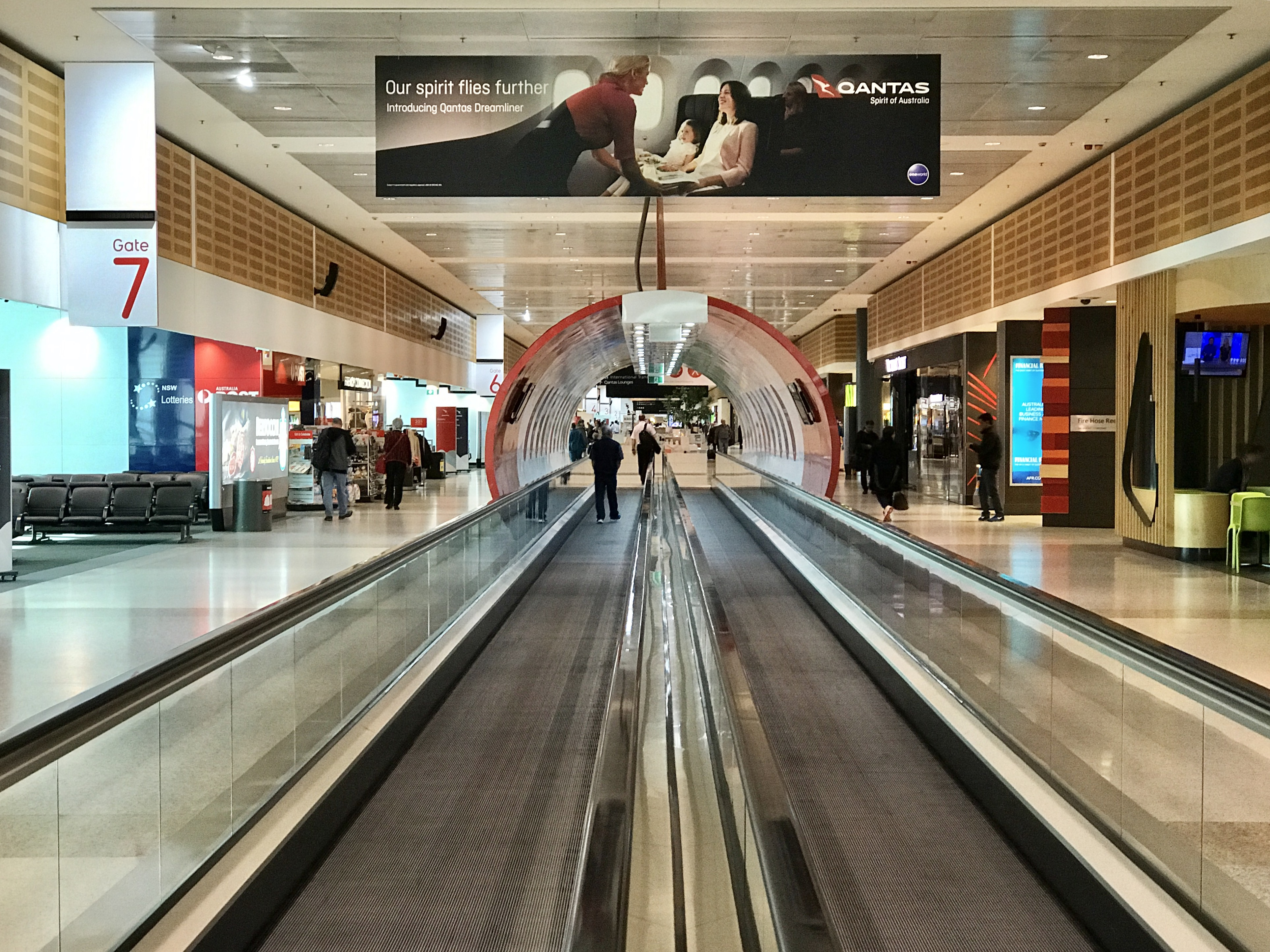 Travelators at Sydney Airport Terminal 3